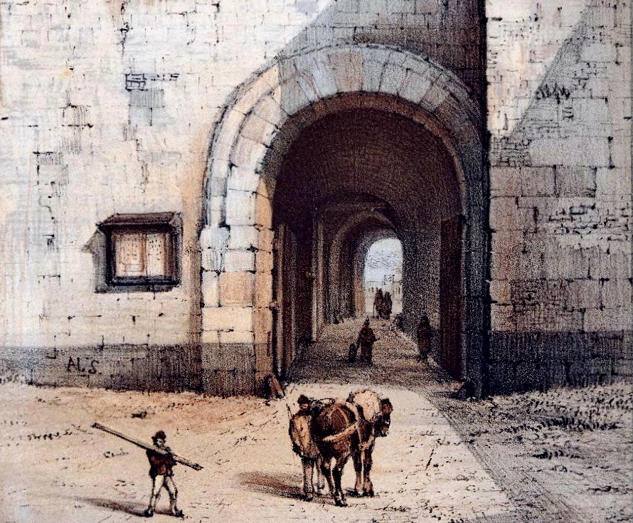 View of Bosch Gate in Maastricht. Lihography by Alexander Schaepkens, ca 1870